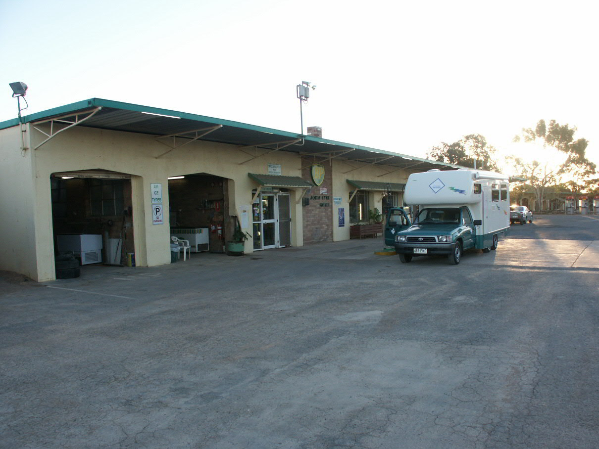 John Eyre Motel, Caiguna, Western Australia.